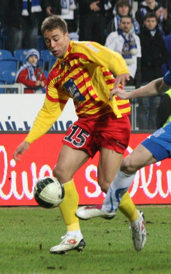 Brazilian football player Thiago Rangel Cionek